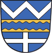 Coat of arms of Westhausen